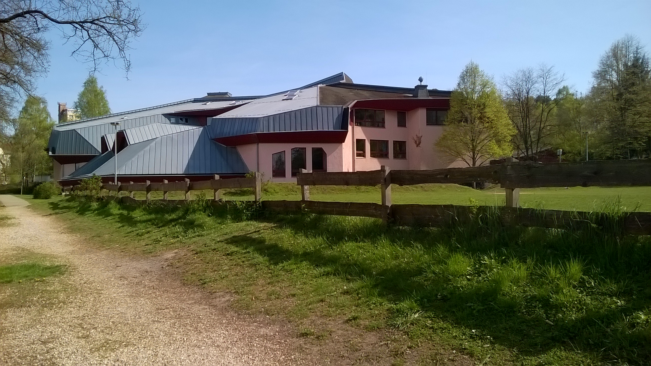 Bexbach Waldorf school.